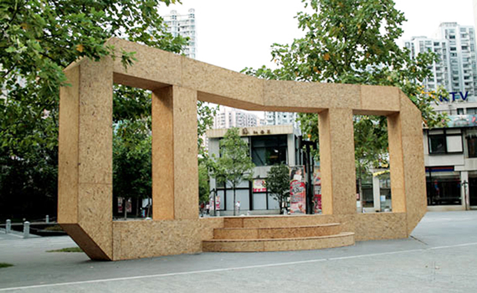 Edifice: sculpture by Howard McCalebb, Shanghai, China